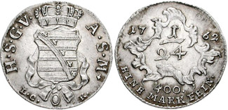 GERMAN STATES, Saxe-Gotha-Altenburg. Friedrich III. 1732-1772. AR 1/24 Thaler (22mm, 1.97 gm). Crowned arms within sashed order / Value in cartouche. KM 18.2. Good VF.